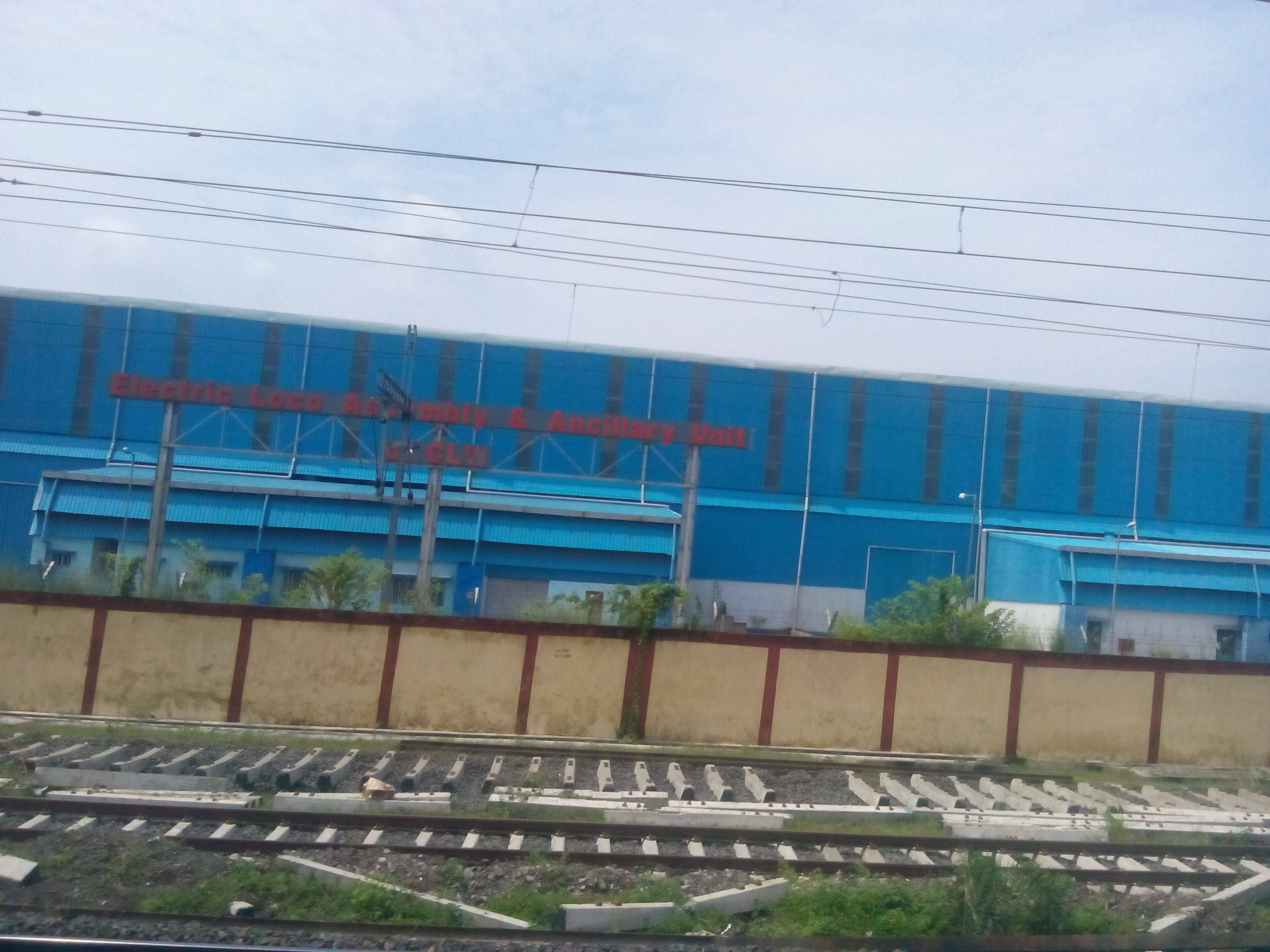 Electric Loco Component Factory in dankuni